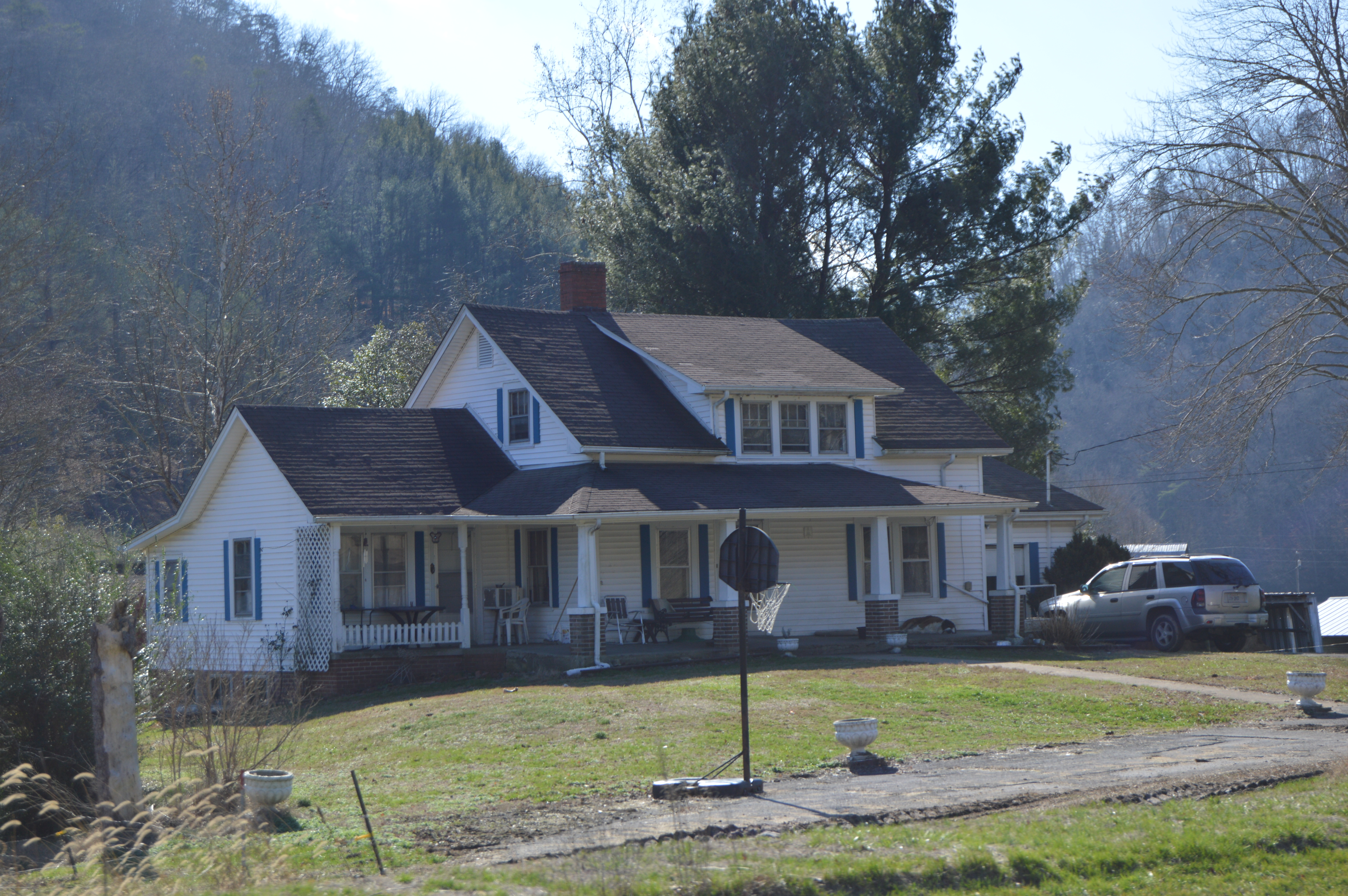 Front and eastern side of the A. P. and Sara Carter House, located on the A.P. Carter Highway at Maces Spring in Scott County, Virginia, United States. Home to country music pioneers A. P. Carter and Sara Carter, it is listed on the National Register of Historic Places.